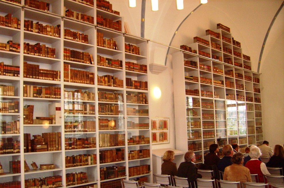 Historische Schulbibliothek Laurentianum